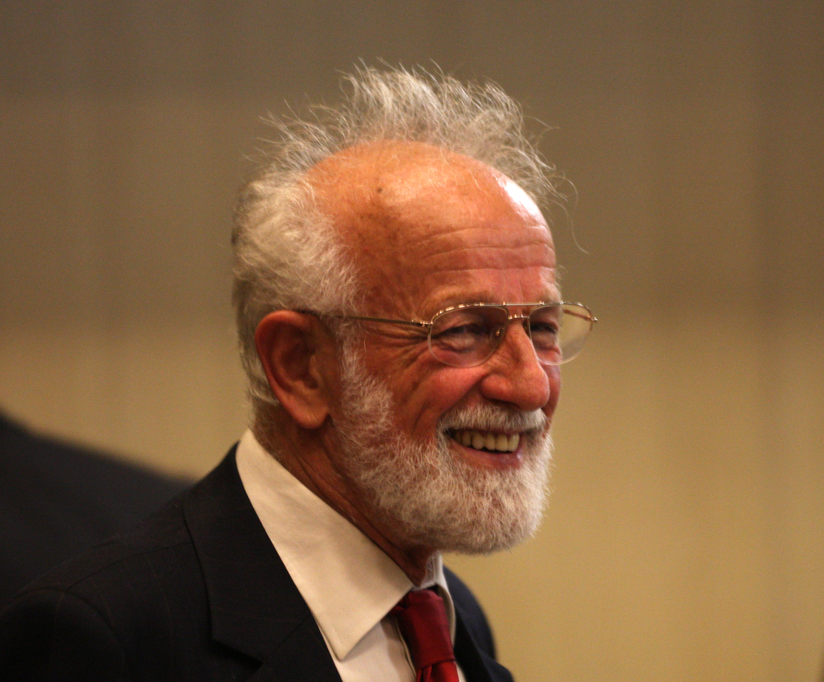 Boris Sket, Slovene zoologist, on a celebration of 50th anniversary of the National Institute of Biology.